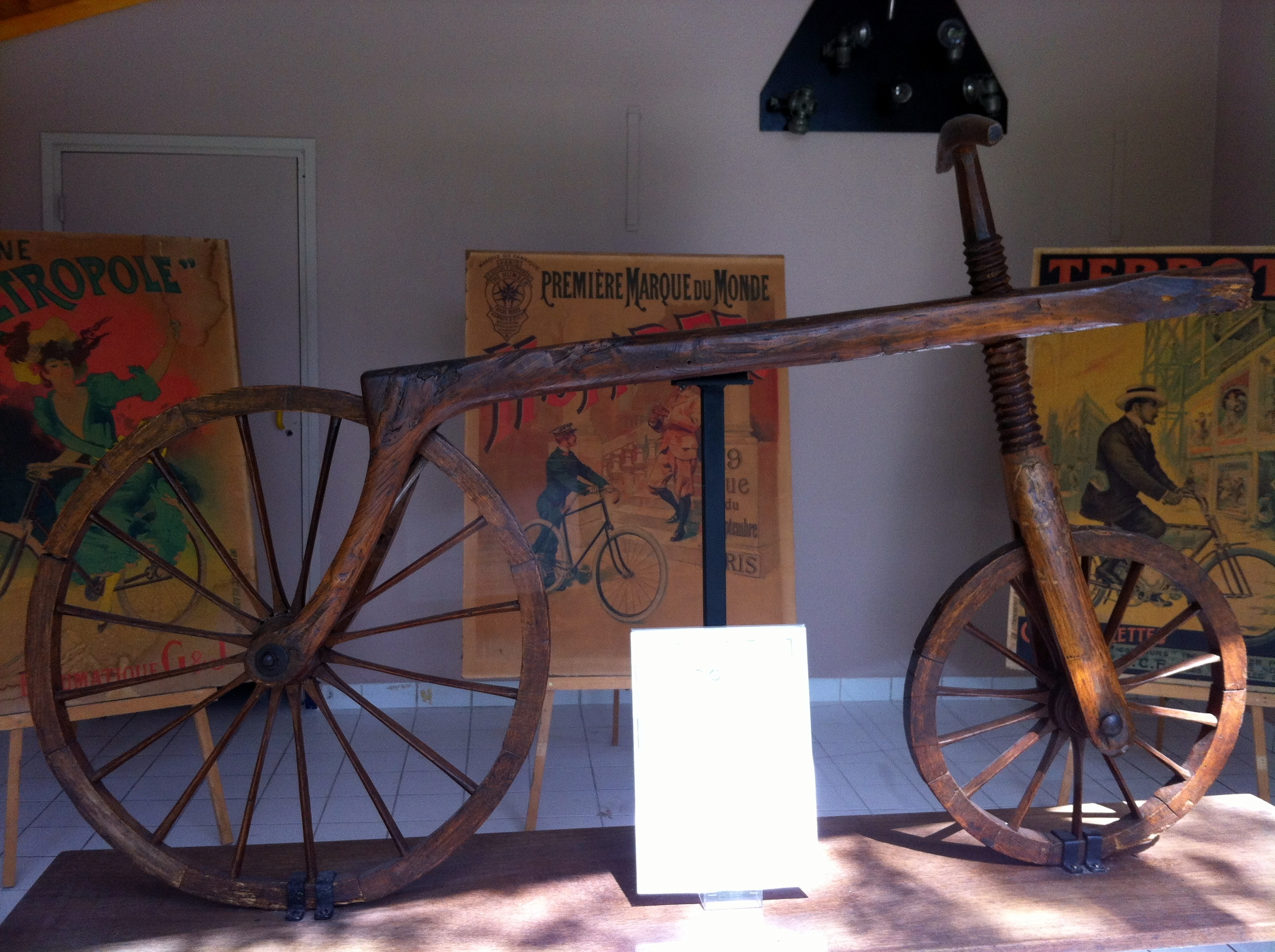 Dandy horse in Musée Henri-Malartre.